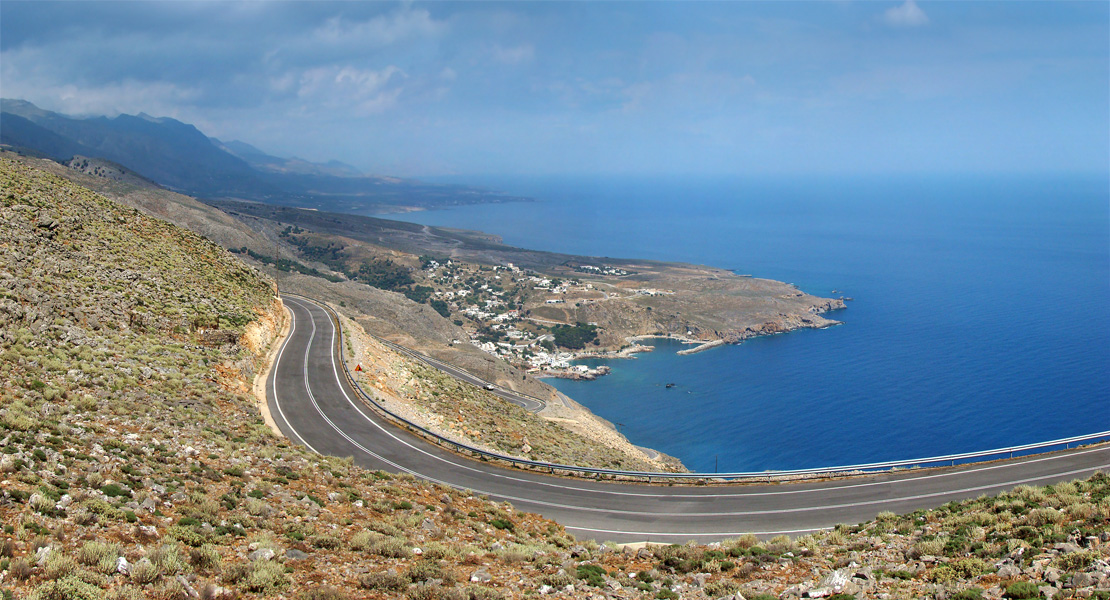 Sfakia, Crete, Greece. On the winding east-west road between Hora Sfakion (visible down the coast) and Aradaina.